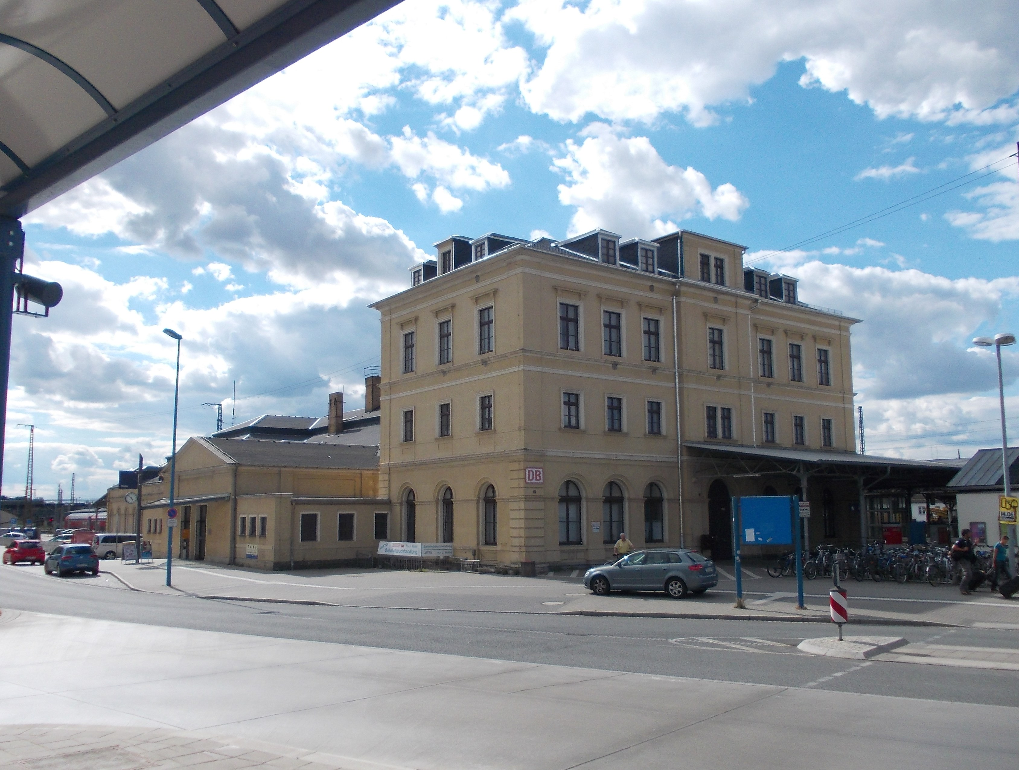 Riesa train station (Meissen district, Saxony)